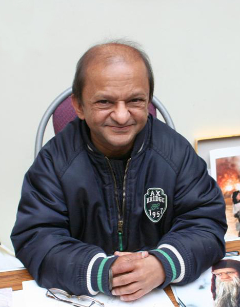 Kiran Shah, actor and a stuntman born in Nairobi, Kenya. Taken at the Norwich Sci-Fi Film, Toy, and Collectors' Fair in 2006.